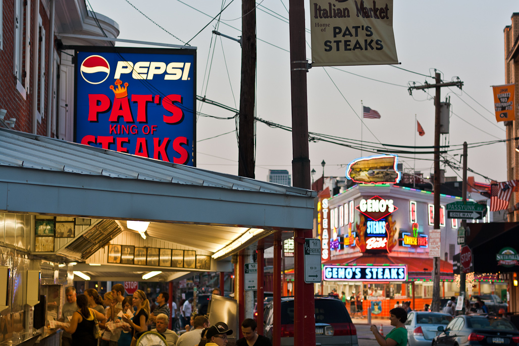 Pat's King of Steaks and Geno's Steaks in south Philly